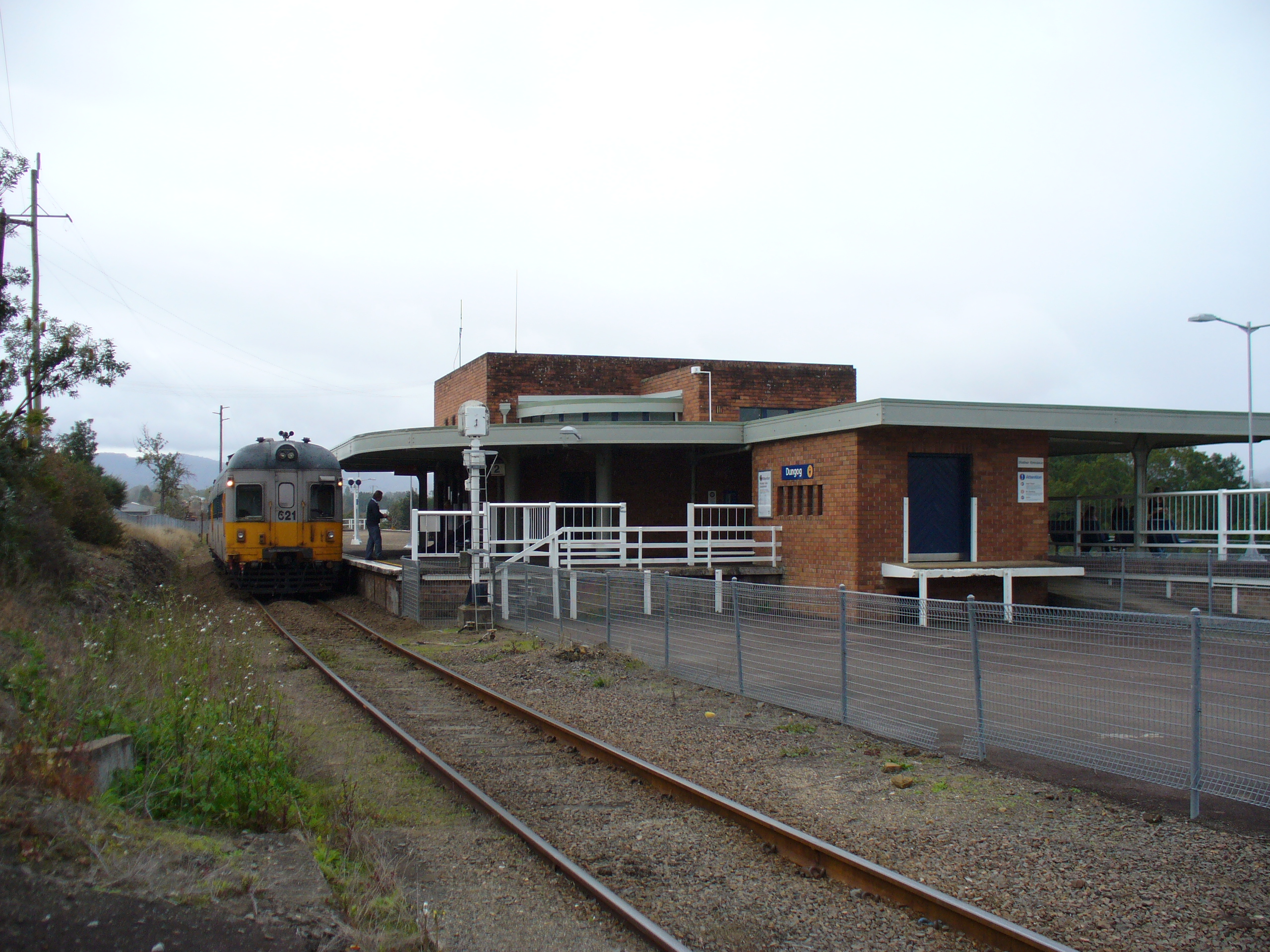 Dungog railway station, Dungog